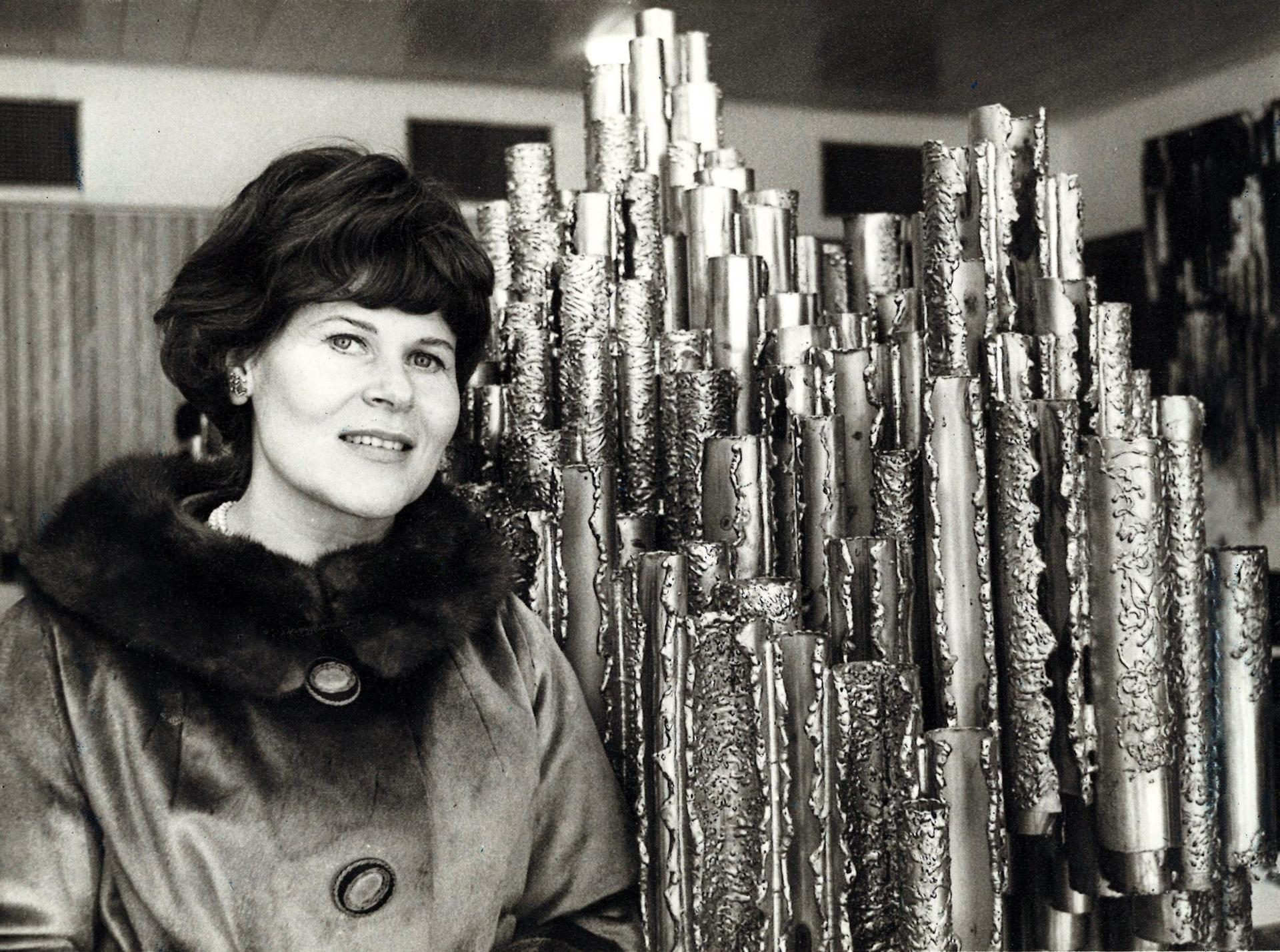 Photograph of the Finnish sculptor Eila Hiltunen with a miniature of the Sibelius Monument.